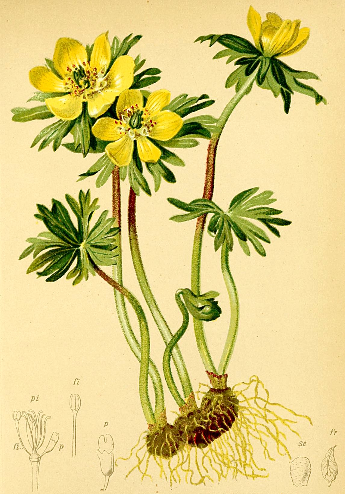 Eranthus hyemalis